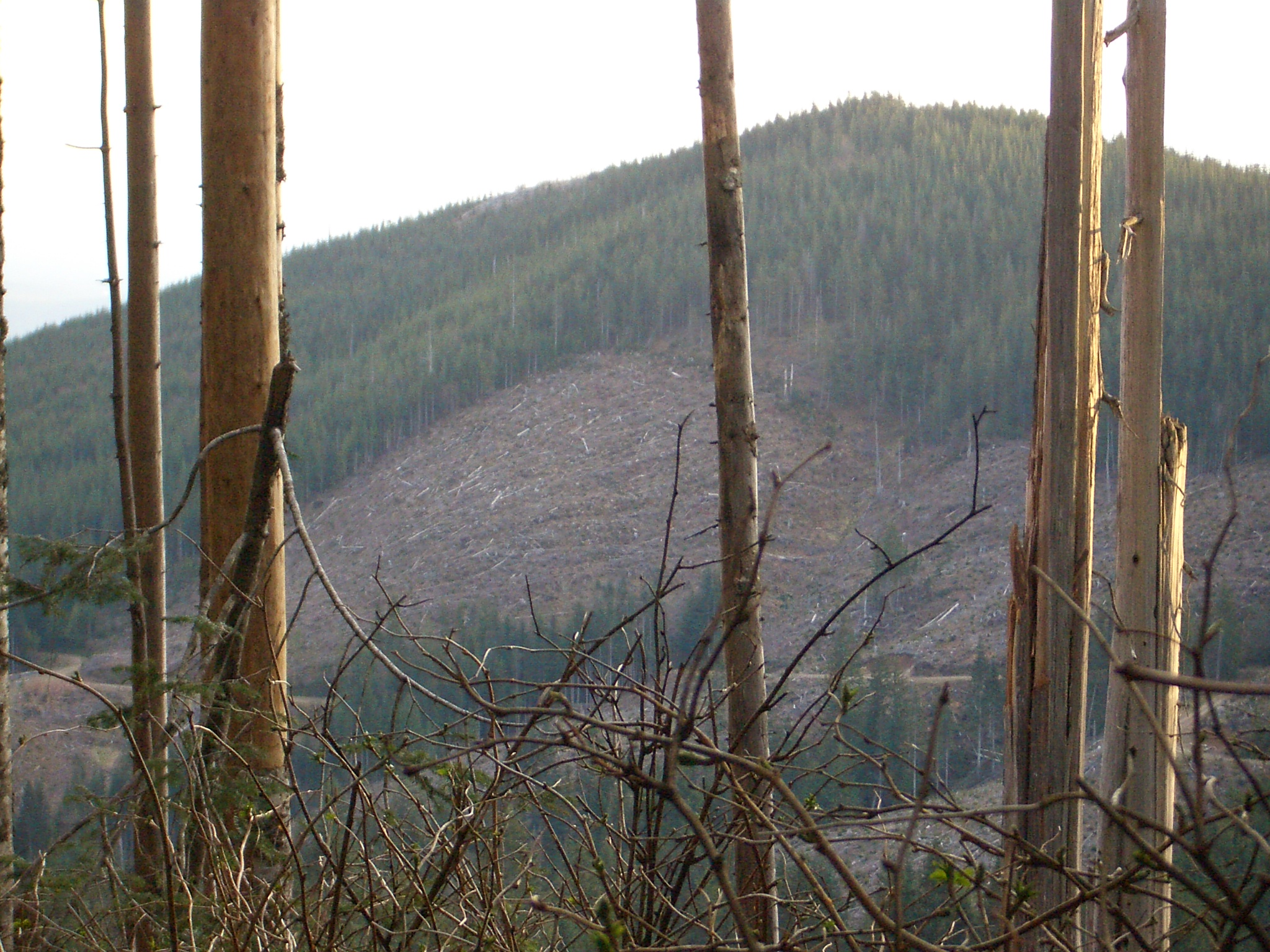 A logged area in the south-central part of Rattlesnake Ridge)